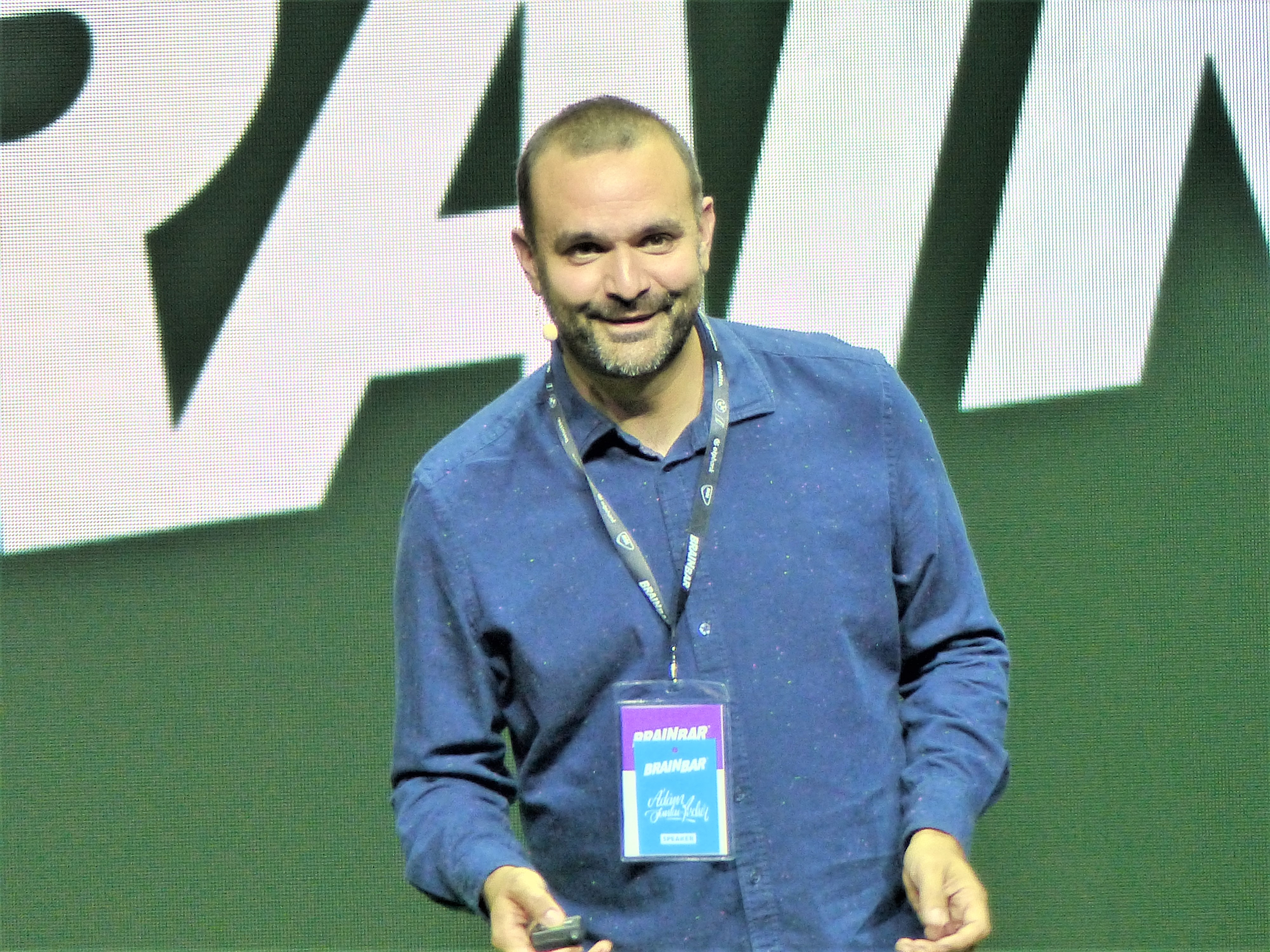 Somlai-Fischer Ádám (Co-founder of Prezi) - AUGMENT OUR FUTURE? Dangers and the creative art of augmented reality. Taken on the 30th of May, 2019. Brain Bar 2019, the first day - Big Hall. Corvinus University, Central Europe.